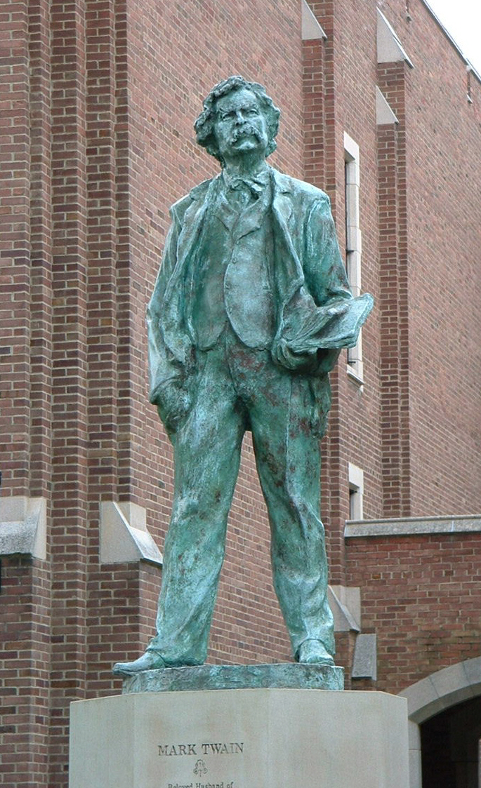 Sculpture representing Mark Twain. Location: Elmira College campus, Elmira, NY.